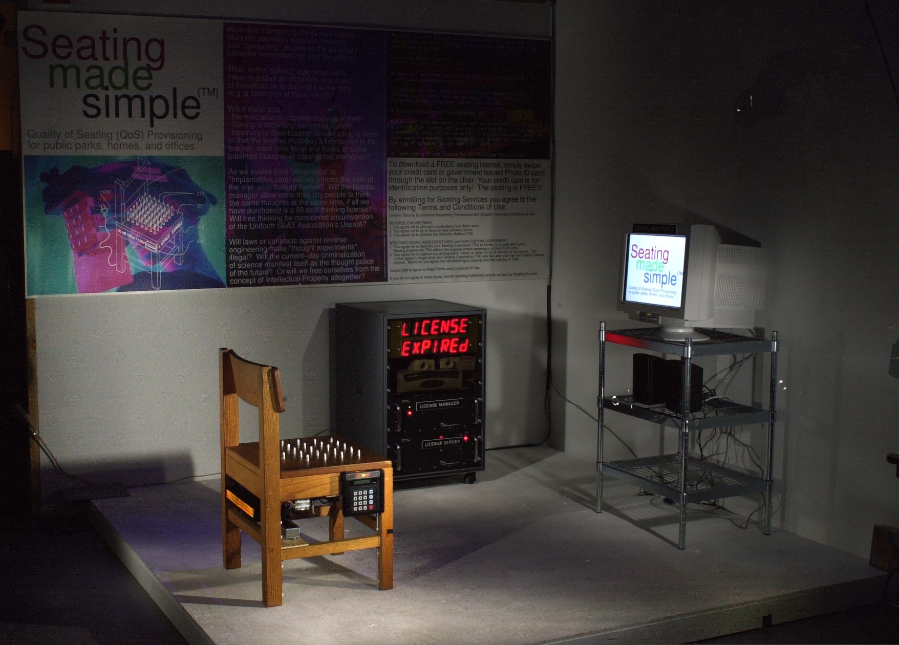 This is a lightvector painting that I made myself (entirely my own work) from 268 lightvectors (268 exposures) on a wearable computer I designed and built myself. The picture was taken in San Francisco Art Institute on 2001 February the 7th, and depicts my art installation of a chair with spikes that retract when payment is received, together with an Internet-connected license server in a 19-inch relay rack that allows users to purchase or get a free trial of a one-seat floating license.